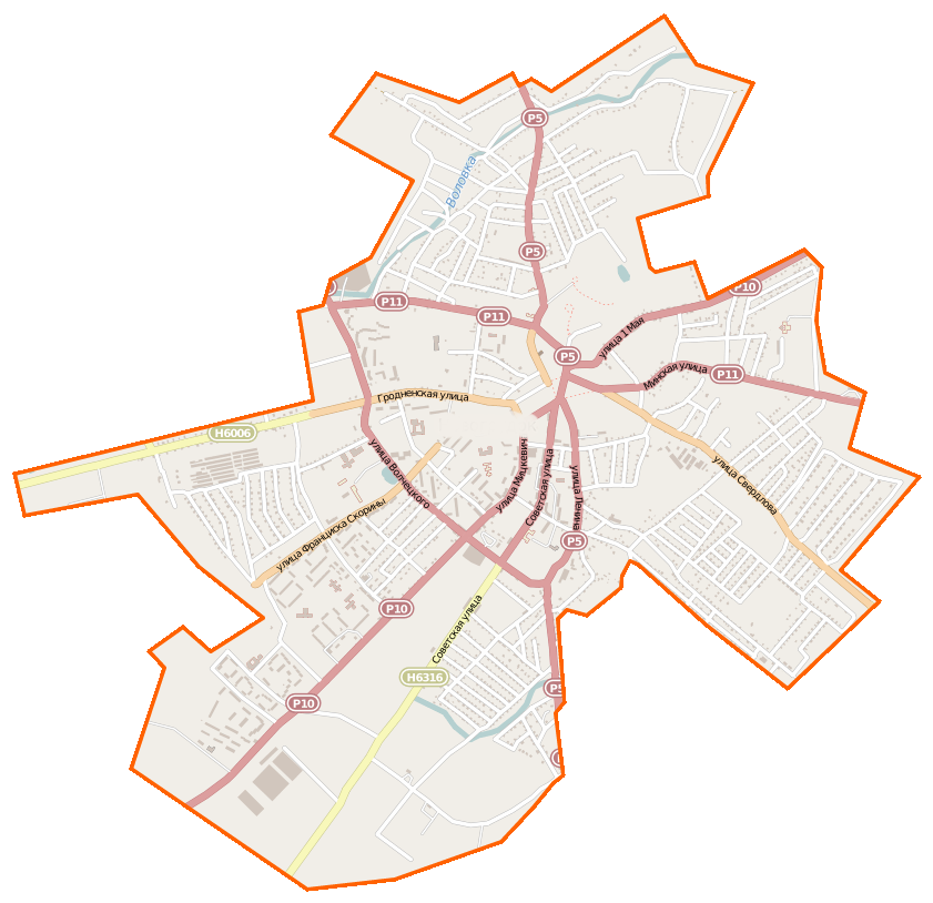 Map of Navahrudak, Belarus This map of Navahrudak was created from OpenStreetMap project data, collected by the community. This map may be incomplete, and may contain errors. Don't rely solely on it for navigation.